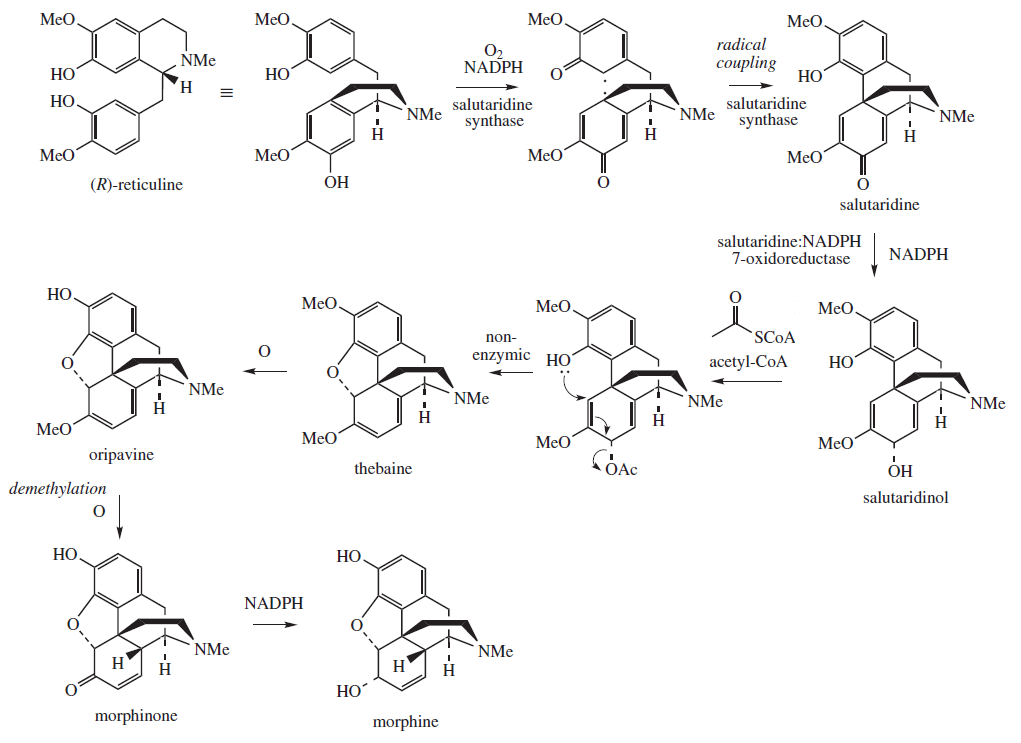 Morphine biosynthesis scheme